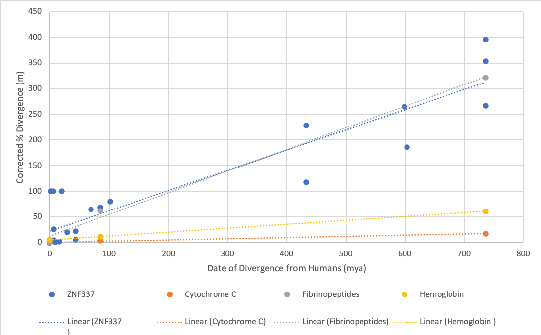 ZNF337 evolution final